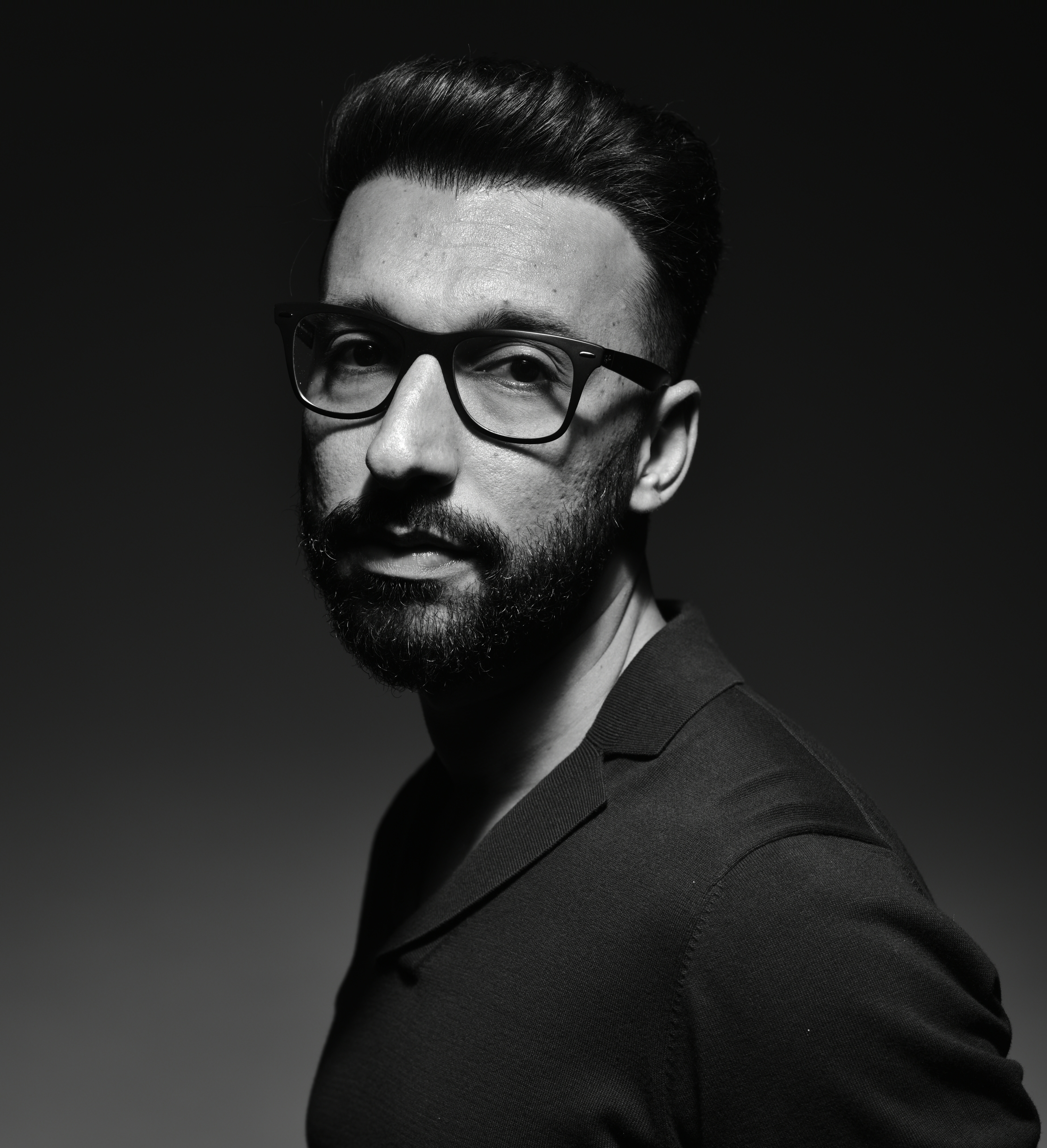 Ala Ghawas in 2017.